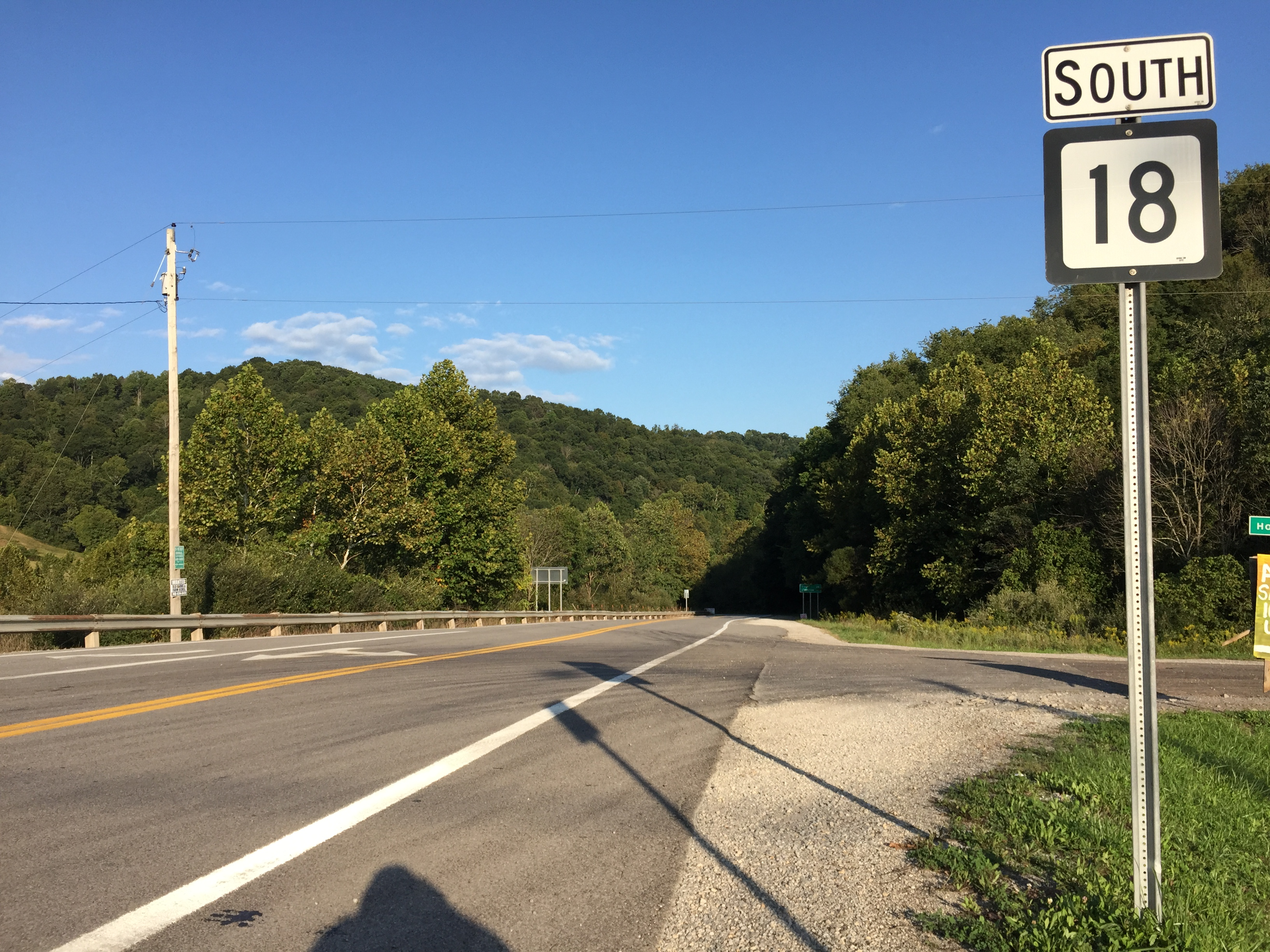 View south along West Virginia State Route 18 at Hope Road (Doddridge County Route 18/1) just south of West Union in Doddridge County, West Virginia